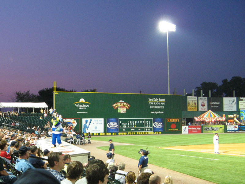 Arch Nemesis at Sovereign Bank Stadium in York, Pennsylvania